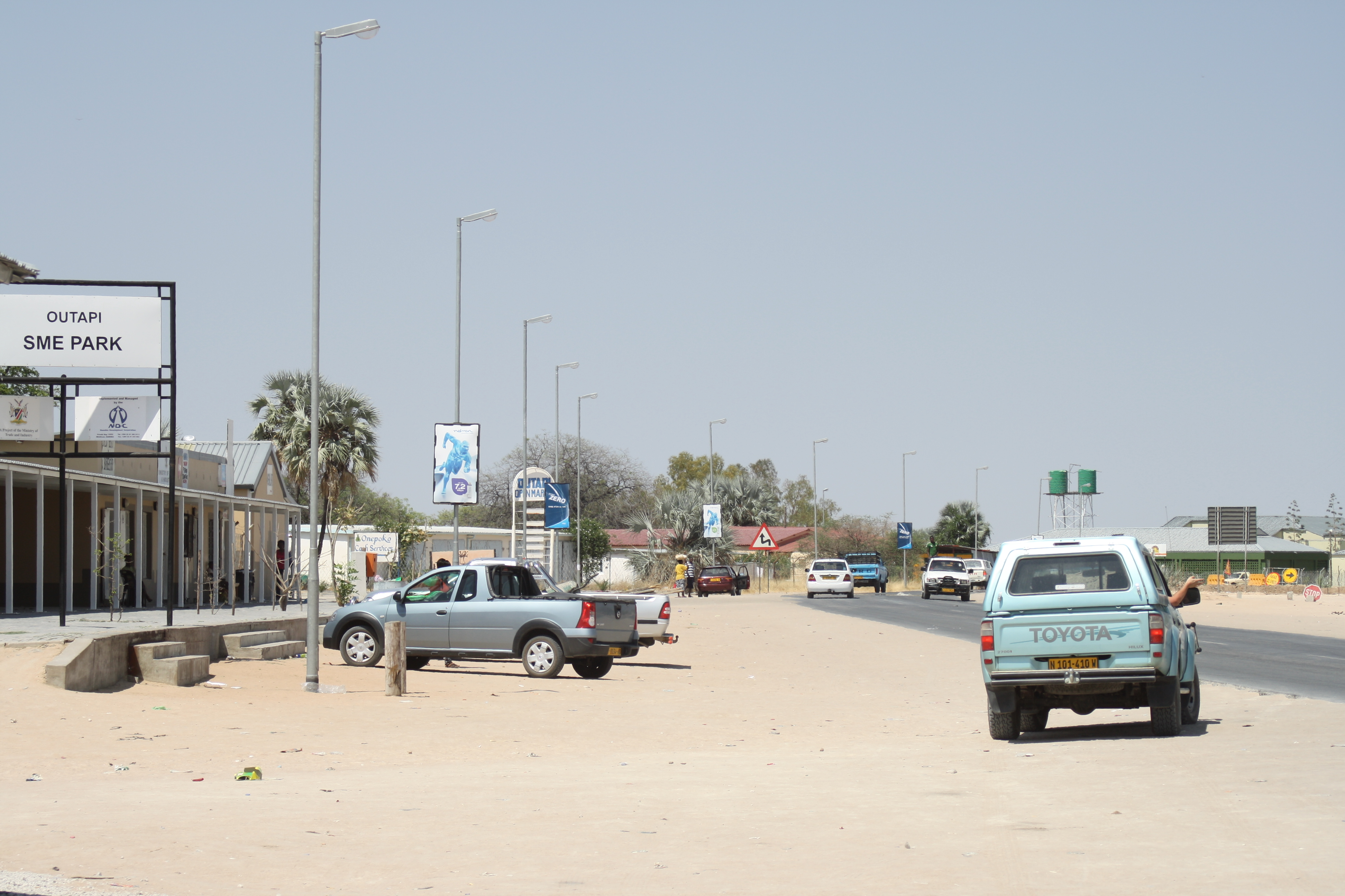 View of the main street of Outapi, Omusati, Namibia.